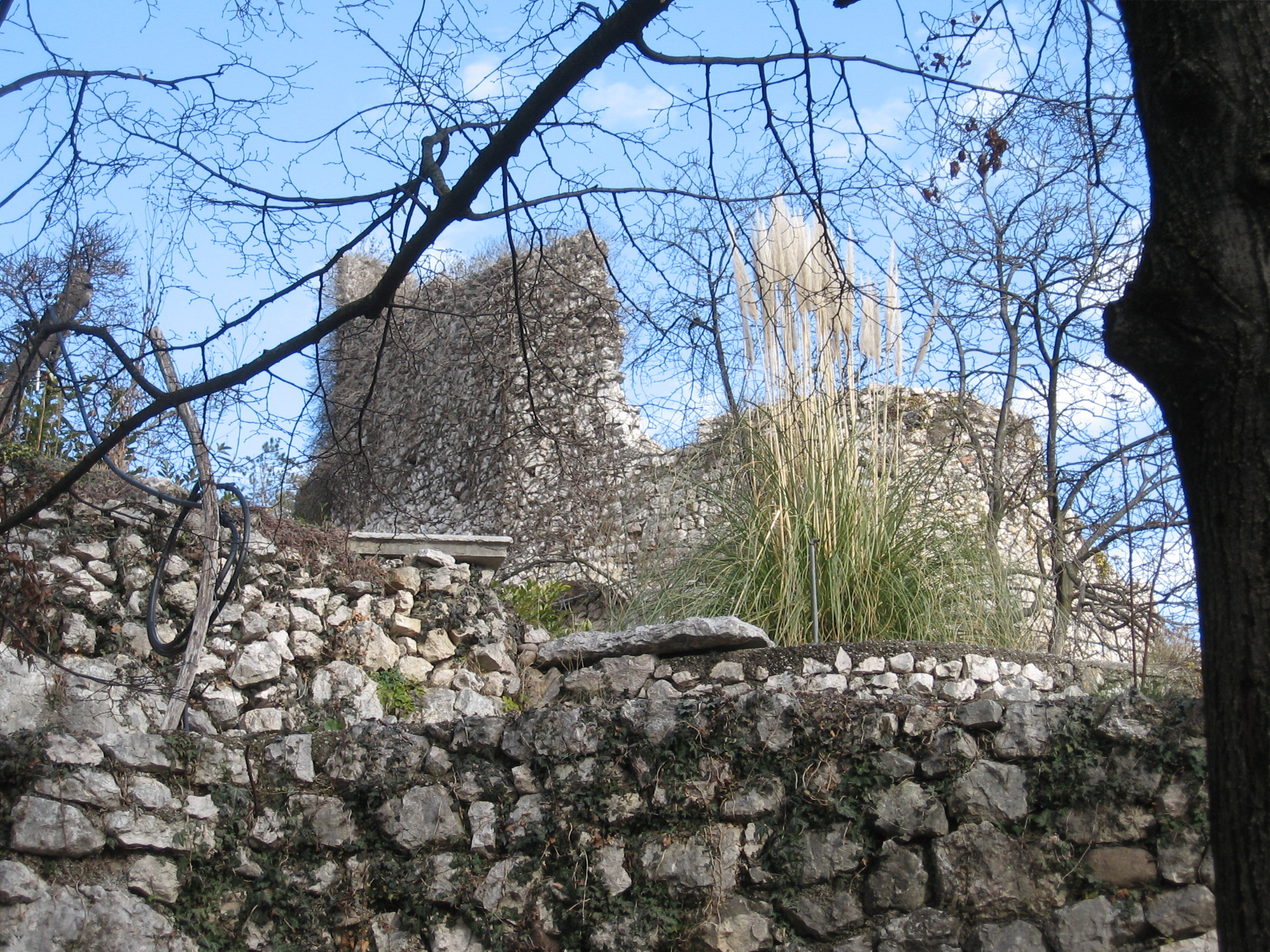 Mori (Italy): rests of the castle of Monte Albano.